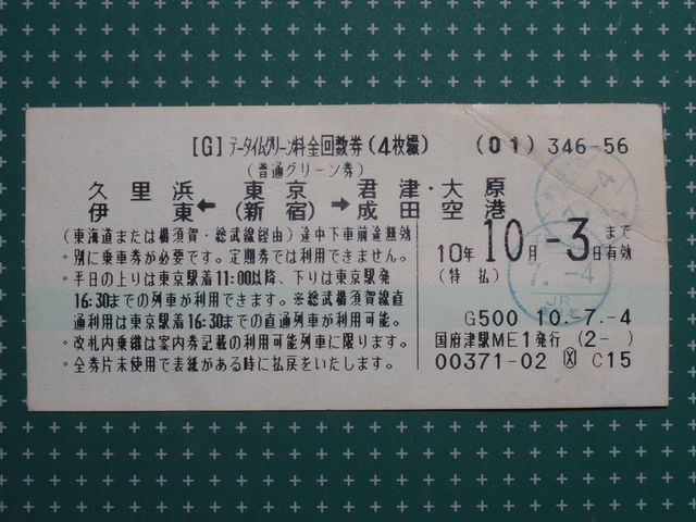 Daytime Repeat Ticket for Green Car at 1998